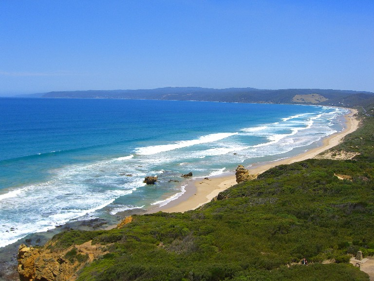 The view to the right, from the top of the Split Point Lighthouse, Aireys Inlet, Victoria, Australia.